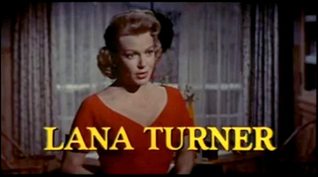 Lana Turner plays Constance MacKensie in "Peyton Place" (original 1957 trailer).